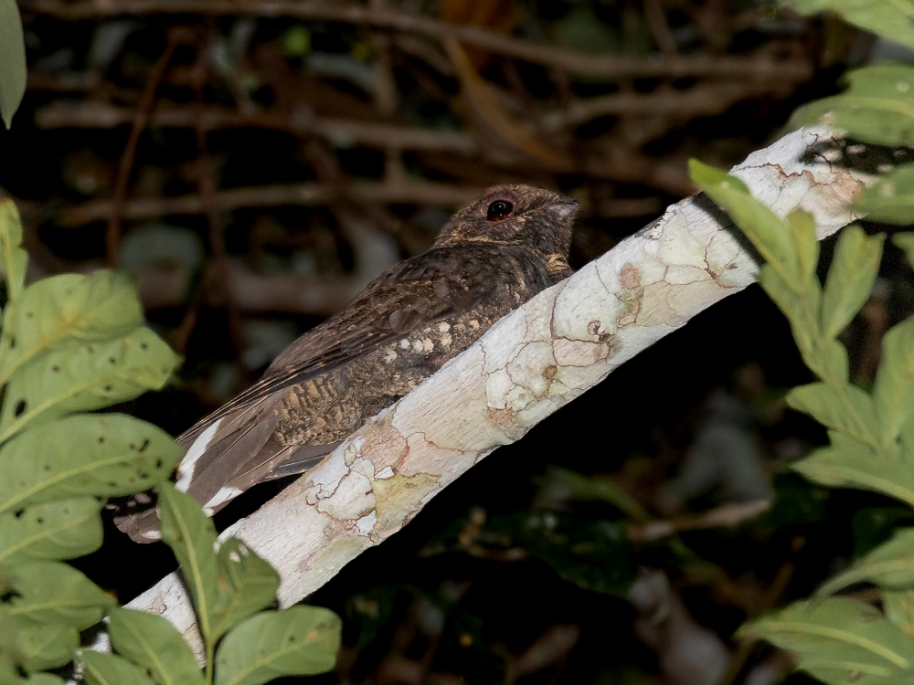 Silky-tailed Nightjar; Carajas National Forest, Pará, Brazil